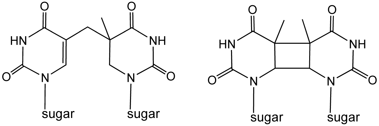 photodimer of Thymine